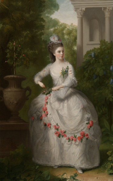 Frances Abington, as Lady Bab Lardoon in 'The Maid of the Oaks' by Lieutenant-General John Burgoyne by Thomas Hickey now in the Garrick Club after 1774